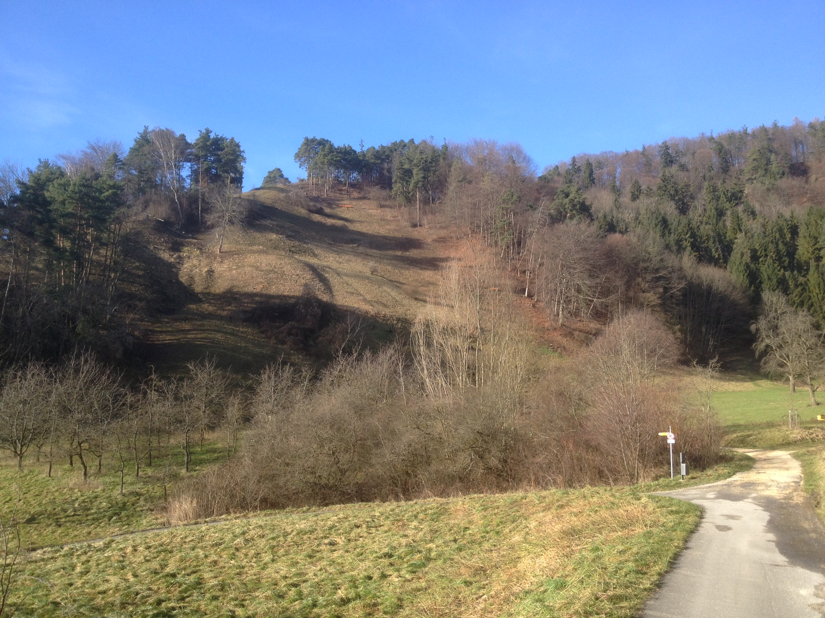 Germany - Baden-Württemberg - Bodenseekreis - Sipplingen: nature reserve "Köstenerberg"